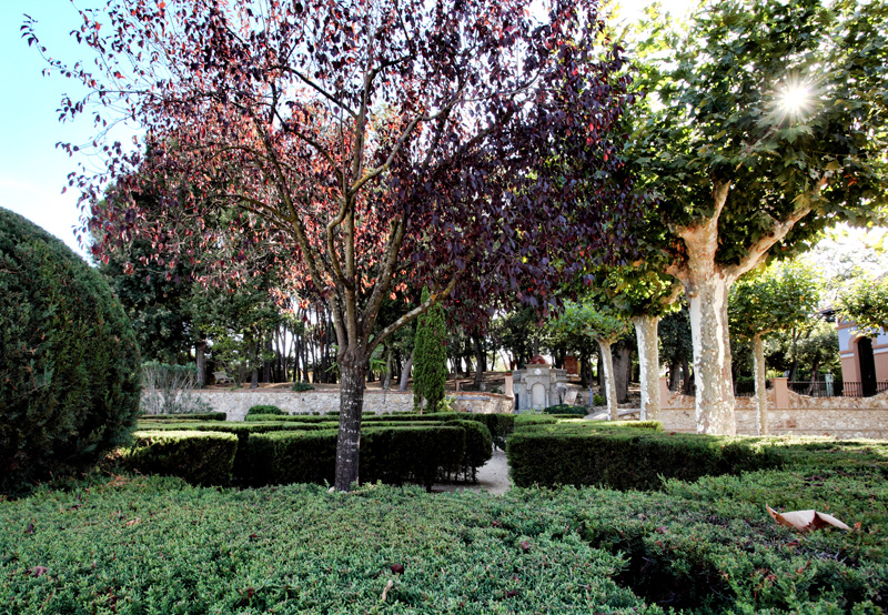 Font de la Vaca